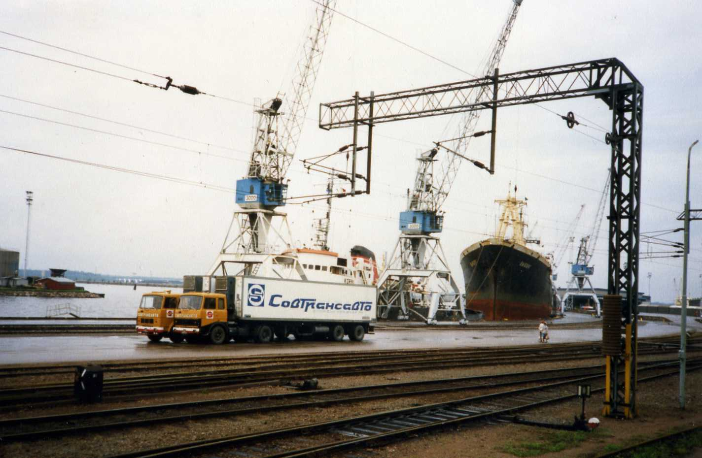 Soviet trucks in port of Kotka in 1987.